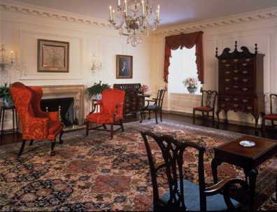 The Map Room, White House